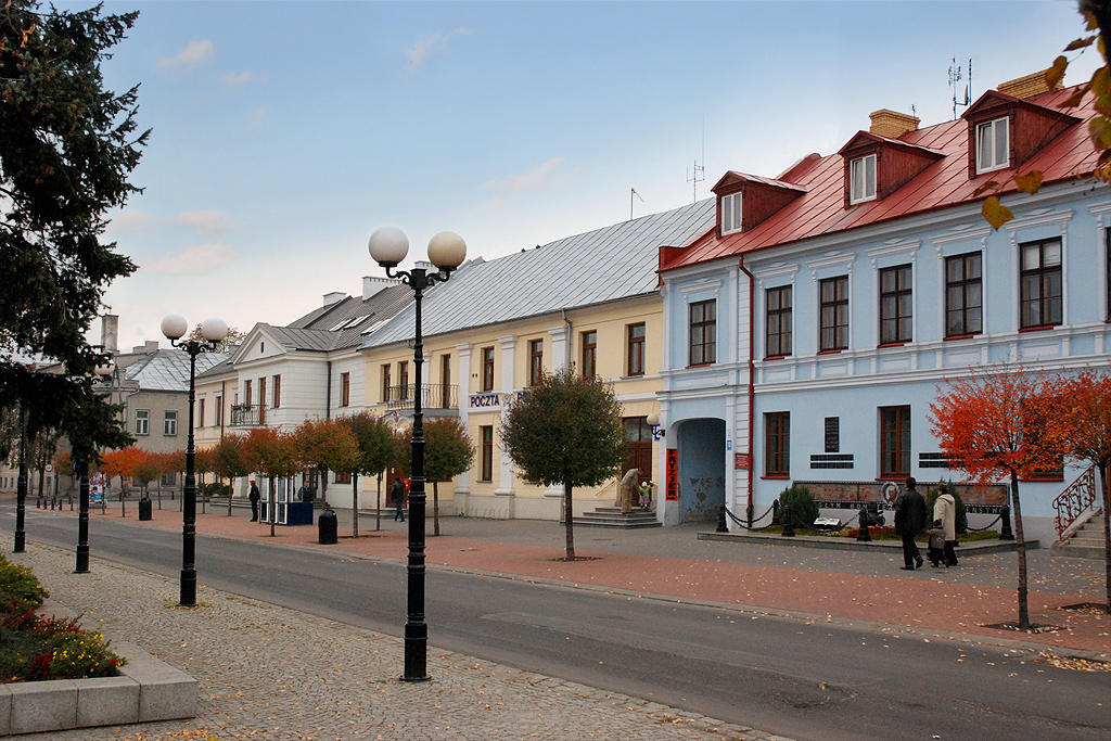 Biała Podlaska, Old Town Square